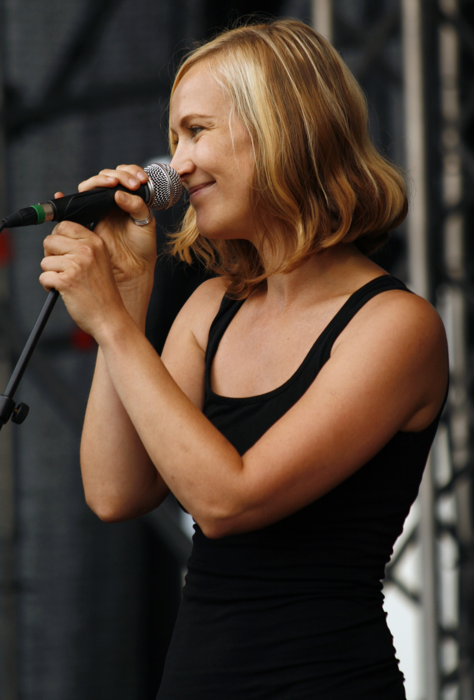 SiE - Austrian musician Sibylle Kefer with band at the Donauinselfest 2008